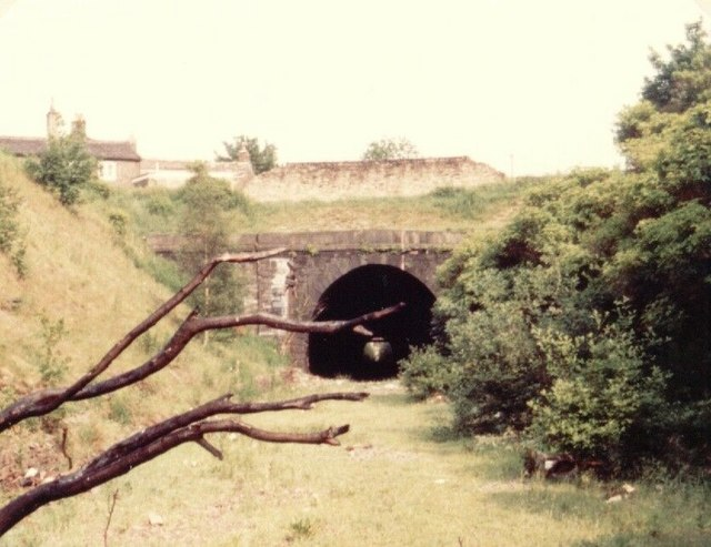 Disused Railway Tunnel. Disused railway tunnel on the GN line between Horton Park and Bradford Goods. This 342yd double track tunnel has now been completely earthed over at both ends.